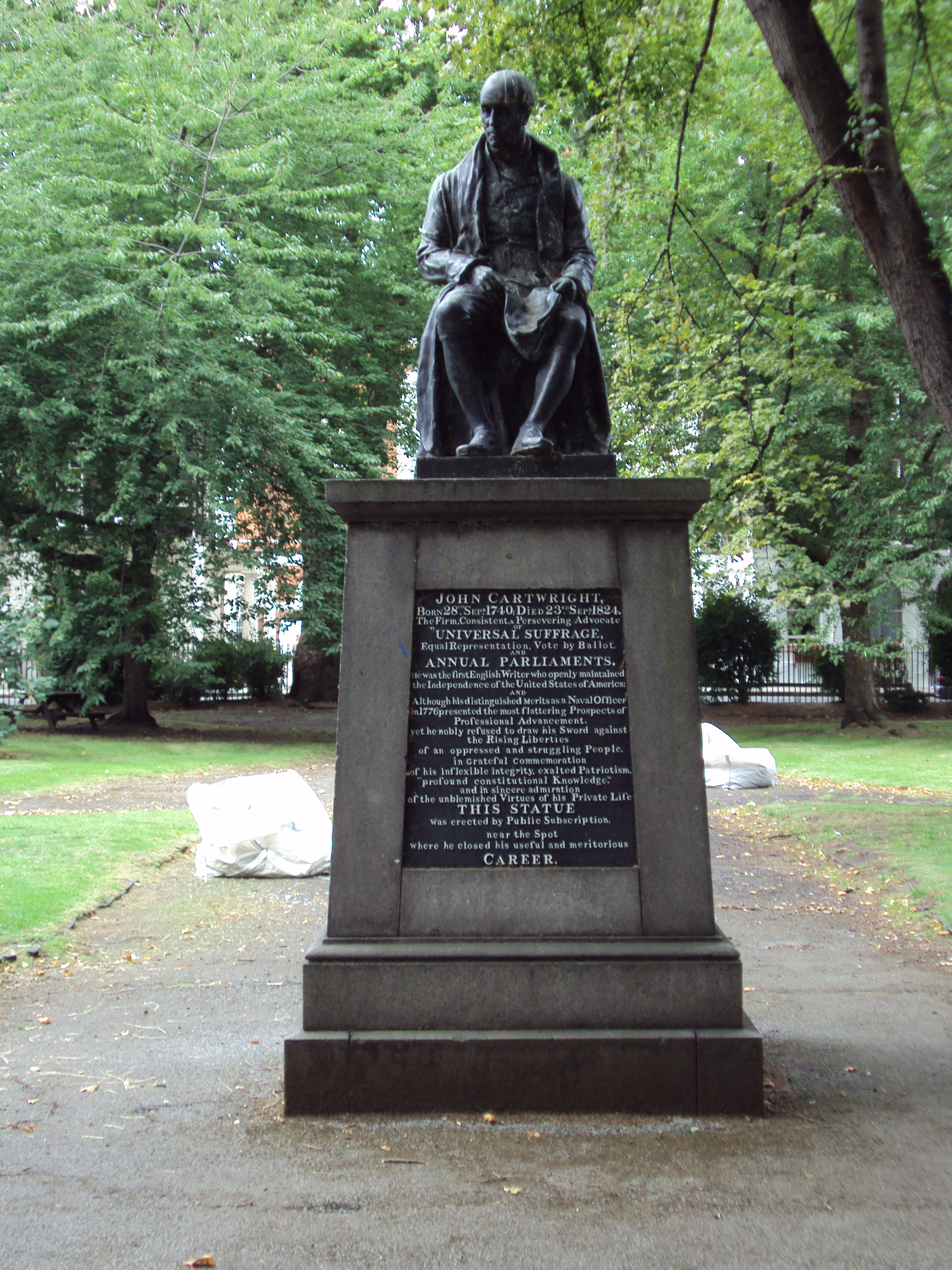 Statue of John Cartwright at Cartwright Gardens, off Euston Road, London, England.